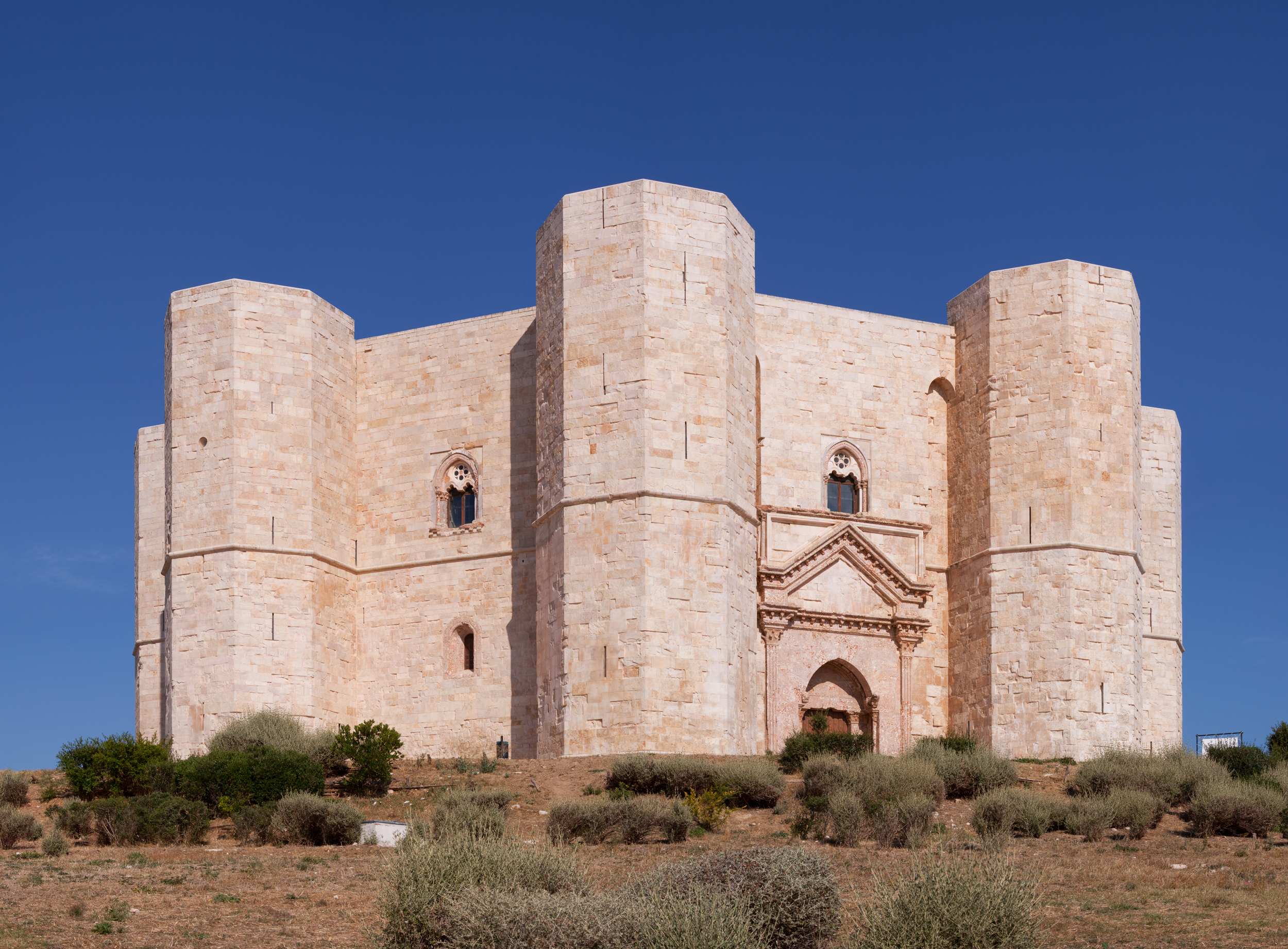 The Castel del Monte is one of the best known landmarks of Southern Italy. It lies in the the region of Apulia. The resolution of the original photograph is 7912*5825.